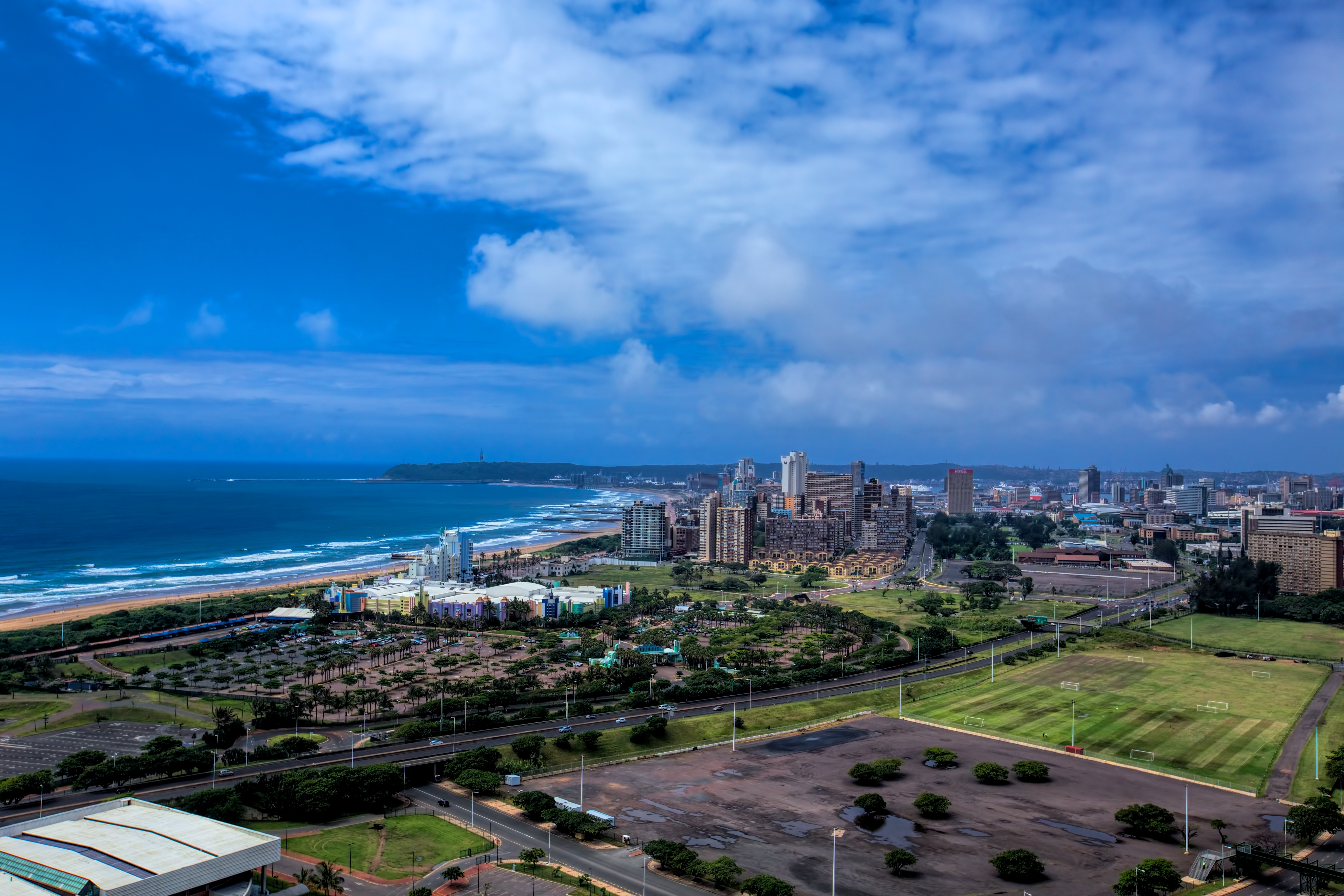 South Africa - Durban